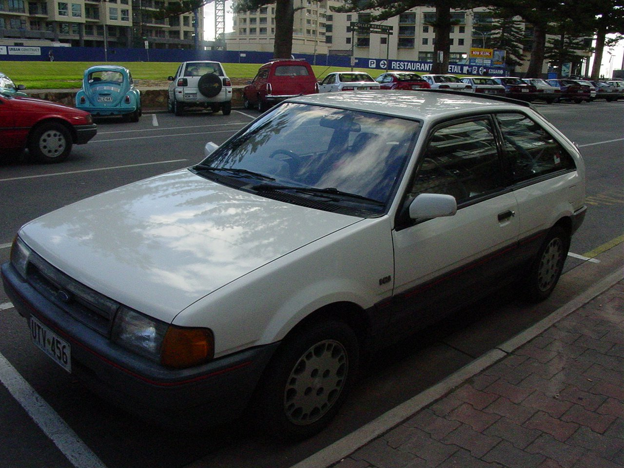 The second generation of Laser (another Ford/Mazda platform share agreement, this time with the Mazda 323) and first appearance of the TX3 model. The KC had a fuel injected DOHC 16v 1.6 engine, a relative novelty at the time but they are a bit overshadowed and forgotten by the later and more desirable turbocharged and four wheel drive TX3s.